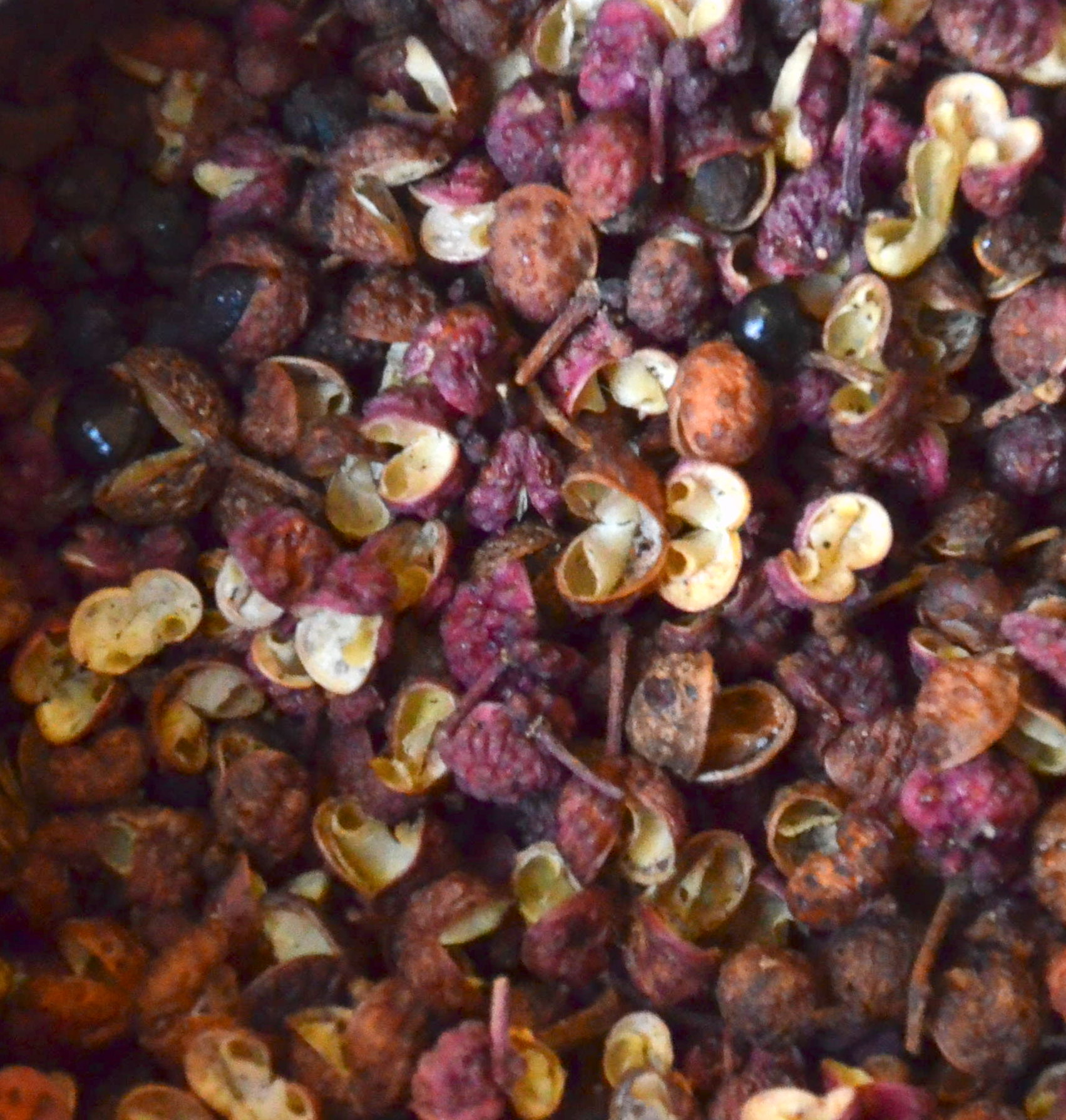 Pink sichuan pepper, sold in Wenchuan Xian, in Sichuan province